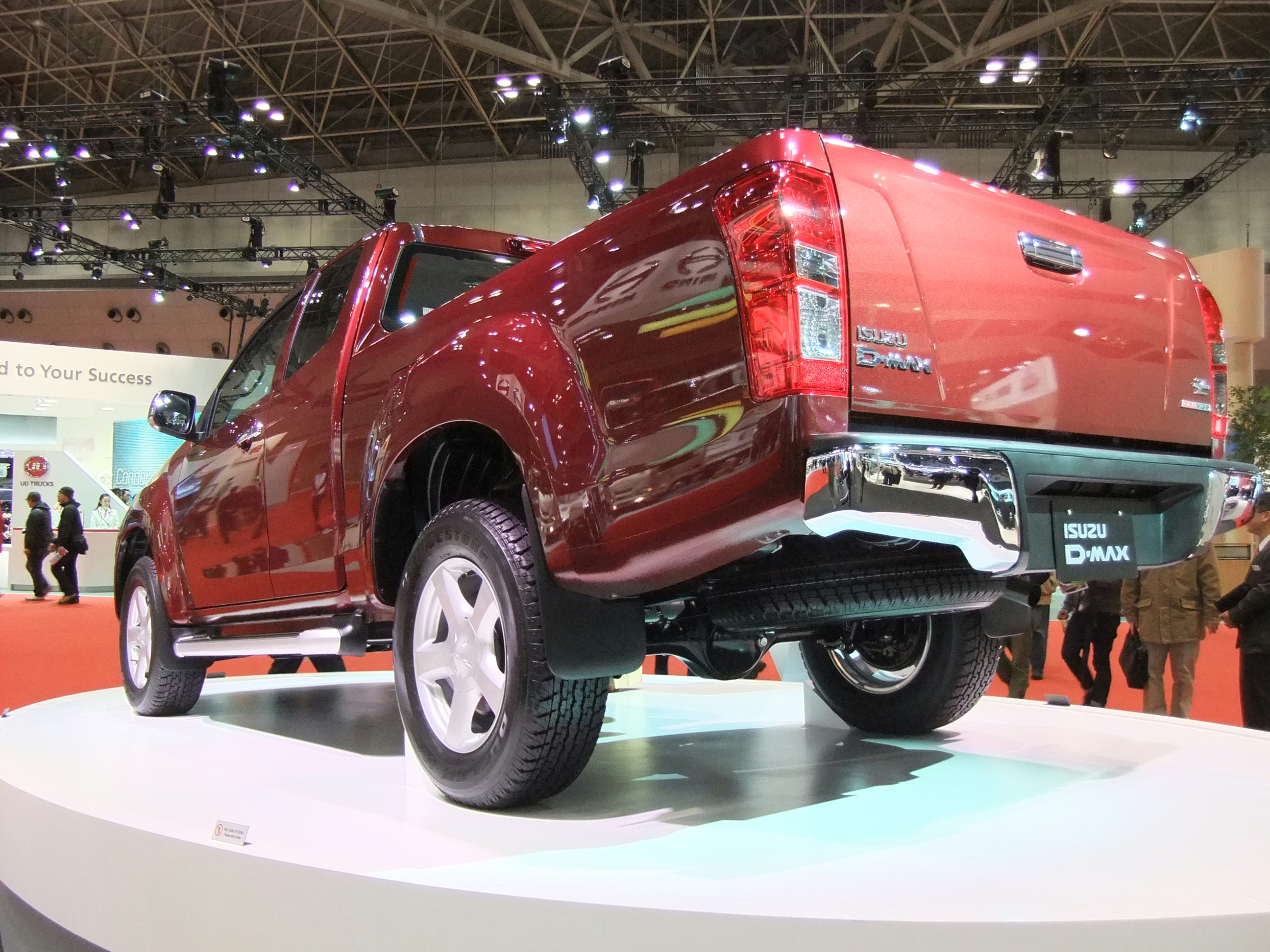 Isuzu, D-max, 2nd Generation (Rear), at Tokyo Motor Show 2011